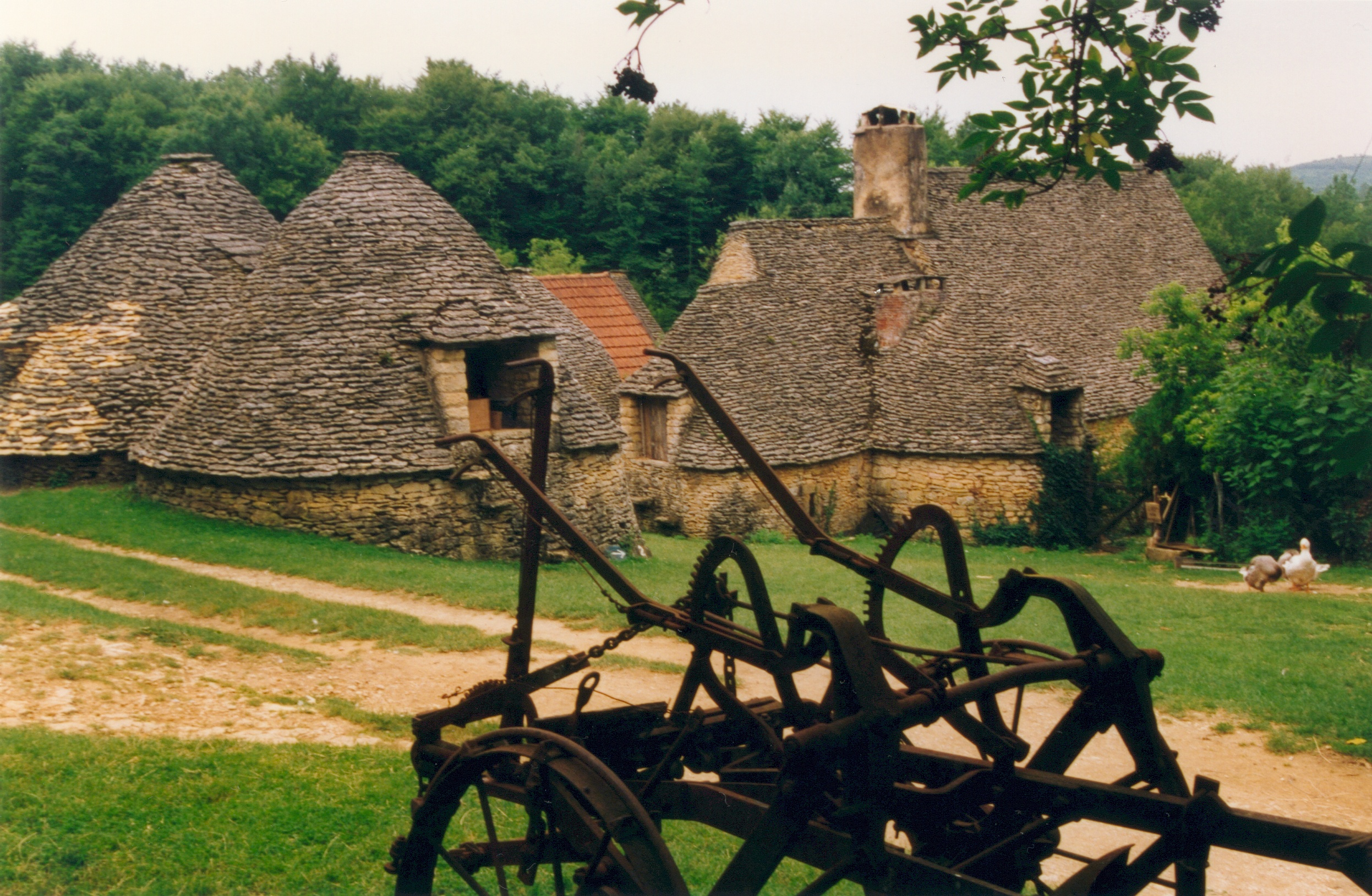 The site known as "Cabanes du Breuil" at Saint-André-d'Allas, Dordogne, France. On the left, the 2nd group of huts. Photograph taken by Patrick Giraud.